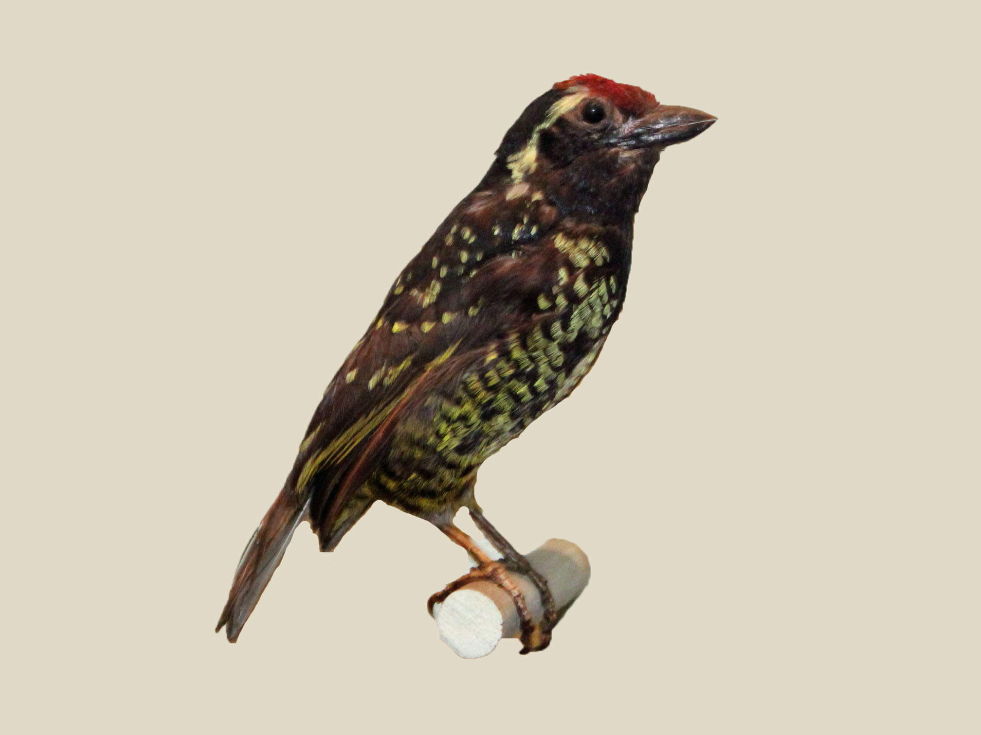 Yellow-spotted Barbet (Buccanodon duchaillui). Photograph of a specimen at Nairobi National Museum in Nairobi, Kenya.